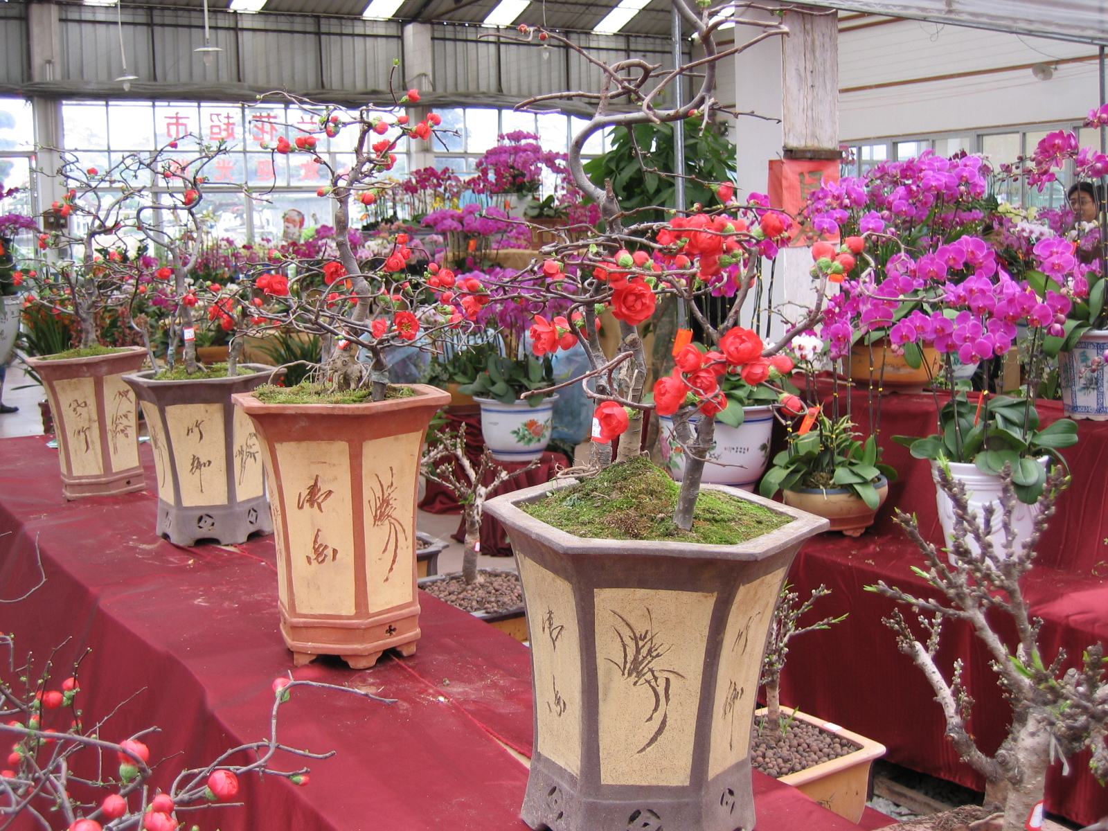 盆景 Flower market, Chencun, Foshan, Guangdong, China